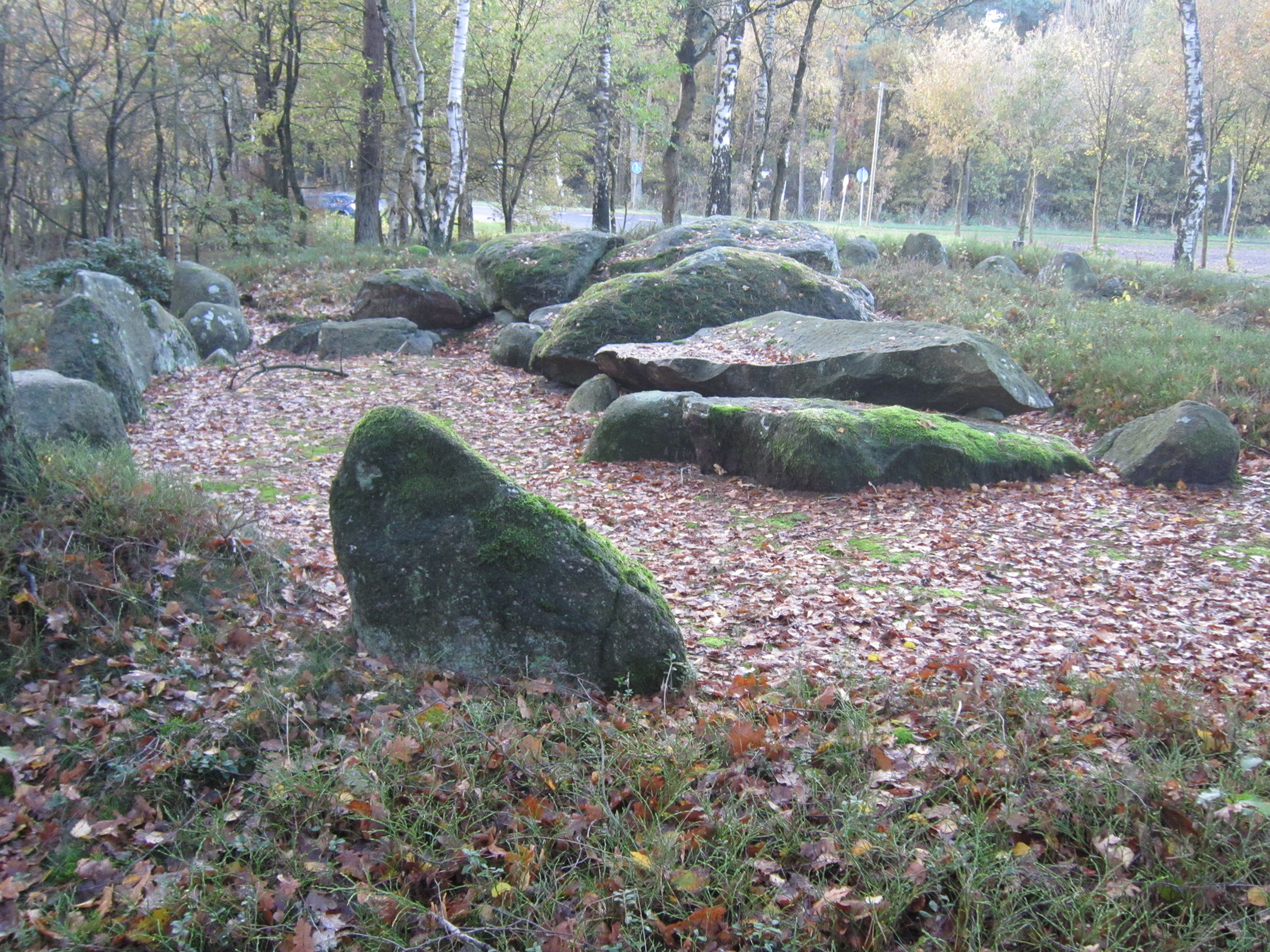 Dolmen "Bei den Düvelskuhlen" in Sögel